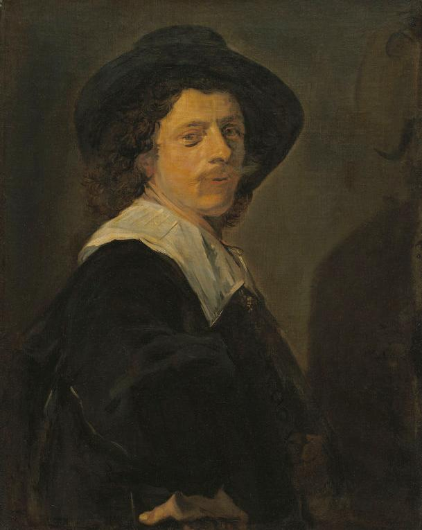 Portrait of an artist, sometimes called the son of the artist, Harmen Hals. Inscribed AETA 32/1644